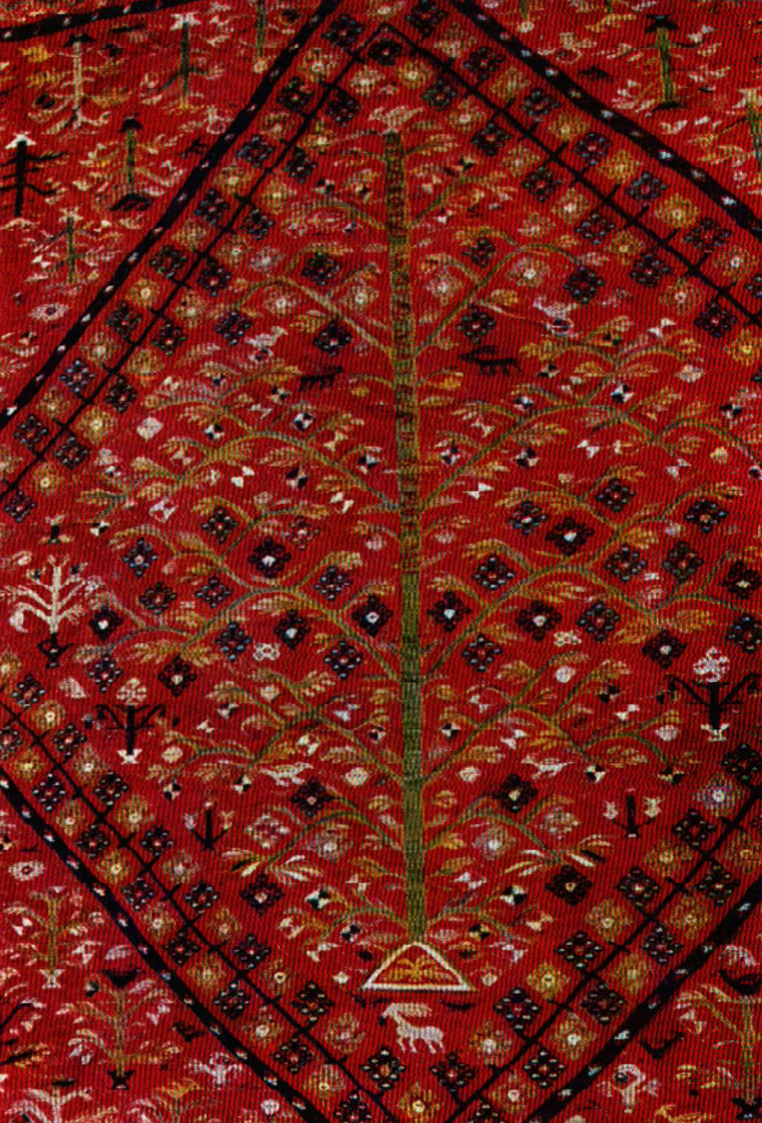 Chiprovtsi-carpet